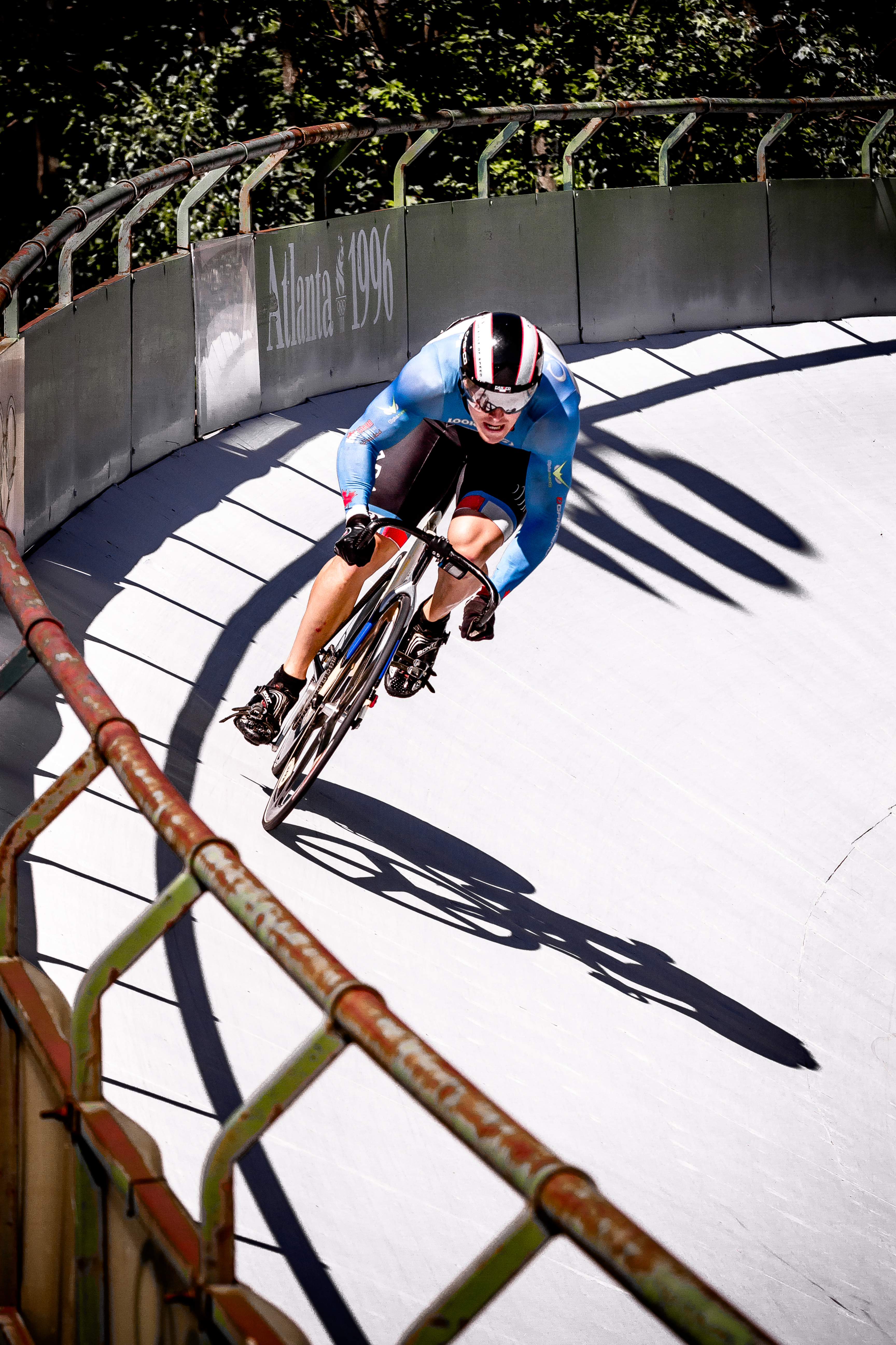 Joel Archambault. Quebec Provincial Track Cycling Championships, Bromont, August 26th & 27th, 2016..